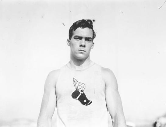 American athlete Charles Chadwick at the 1904 Olympic Games.